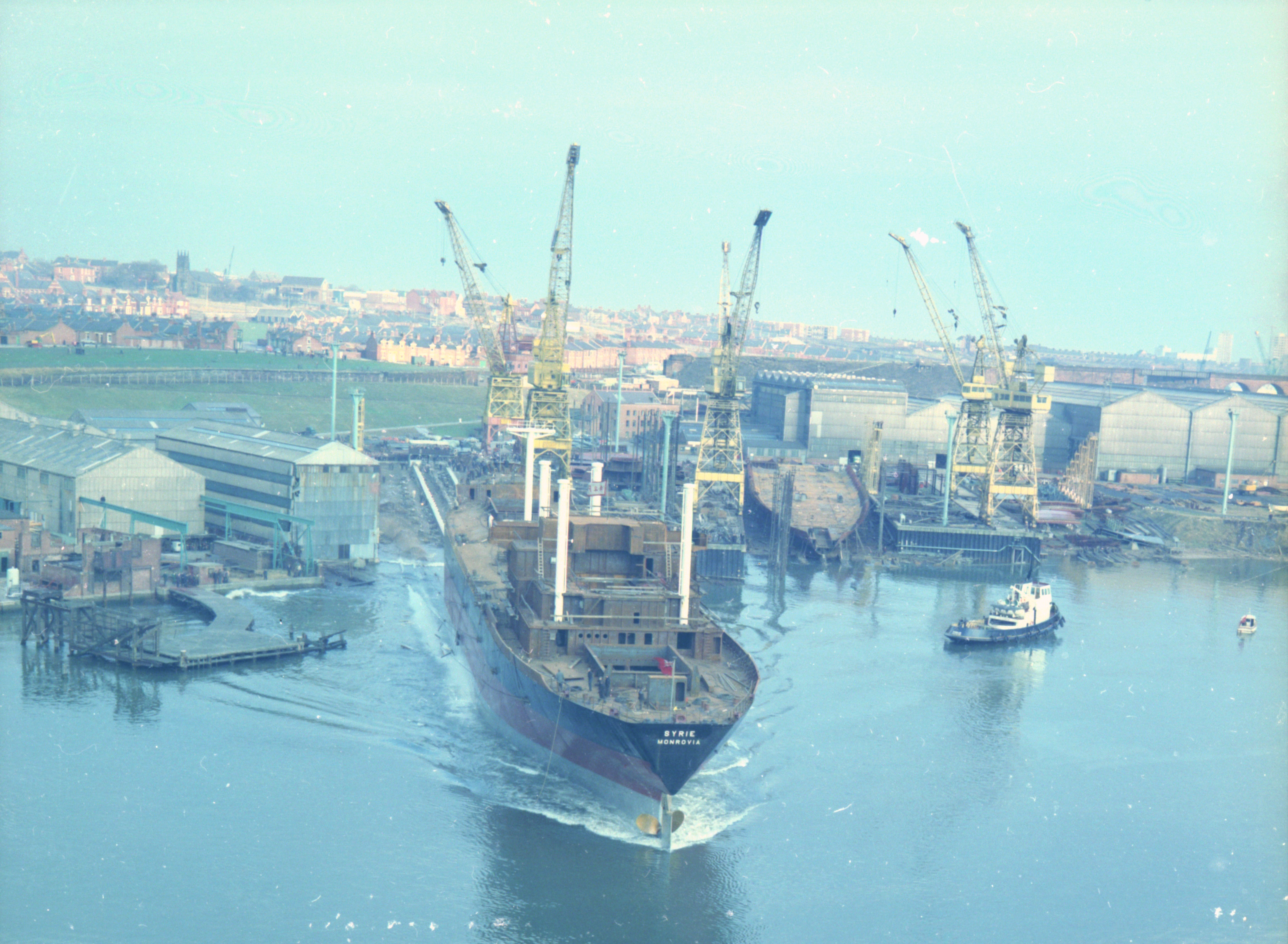 Launch of the SD14 ‘Syrie’ from the Southwick shipyard of Austin & Pickersgill Ltd, 14 February 1968 (DT.TUR/4/AG3727A). Tyne & Wear Archives is proud to present a selection of images from its Sunderland shipbuilding collections. The set has been produced to celebrate Sunderland History Fair on 7 June 2014. It's a reminder of the thousands of vessels launched on the River Wear and the many outstanding achievements of Sunderland’s shipyards and their workers. These photographs reflect Sunderland’s history of innovation in shipbuilding and marine engineering from the development of turret ships in the 1890s through to the design for SD14s in the 1960s. The Sunderland shipbuilding collections are full of fascinating stories. Some of these are represented in this set, such as the ‘Rondefjell’, launched in two halves on the River Wear by John Crown & Sons Ltd and then joined together on the River Tyne. The set also shows the vital part that Sunderland’s shipbuilding industry played during the First World War. William Doxford & Sons Ltd built Royal Naval destroyers such as HMS Opal, which served in the Battle of Jutland, while other yards constructed cargo ships to help keep these shores supplied. (Copyright) We're happy for you to share these digital images within the spirit of The Commons. Please cite 'Tyne & Wear Archives & Museums' when reusing. Certain restrictions on high quality reproductions and commercial use of the original physical version apply though; if you're unsure please